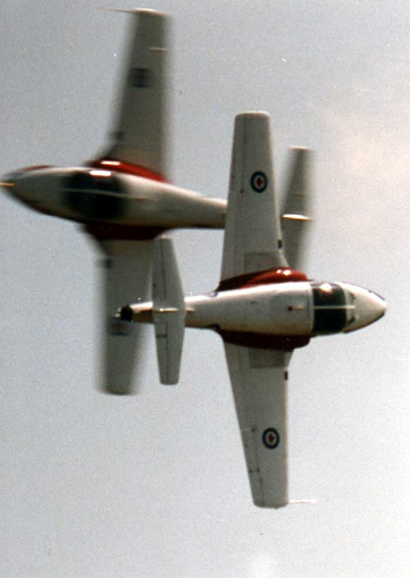 Snowbirds fly head-on Taken by User:Jok2000 July 3, 1994 at the National Capital Airshow, Ottawa, Ontario, Canada